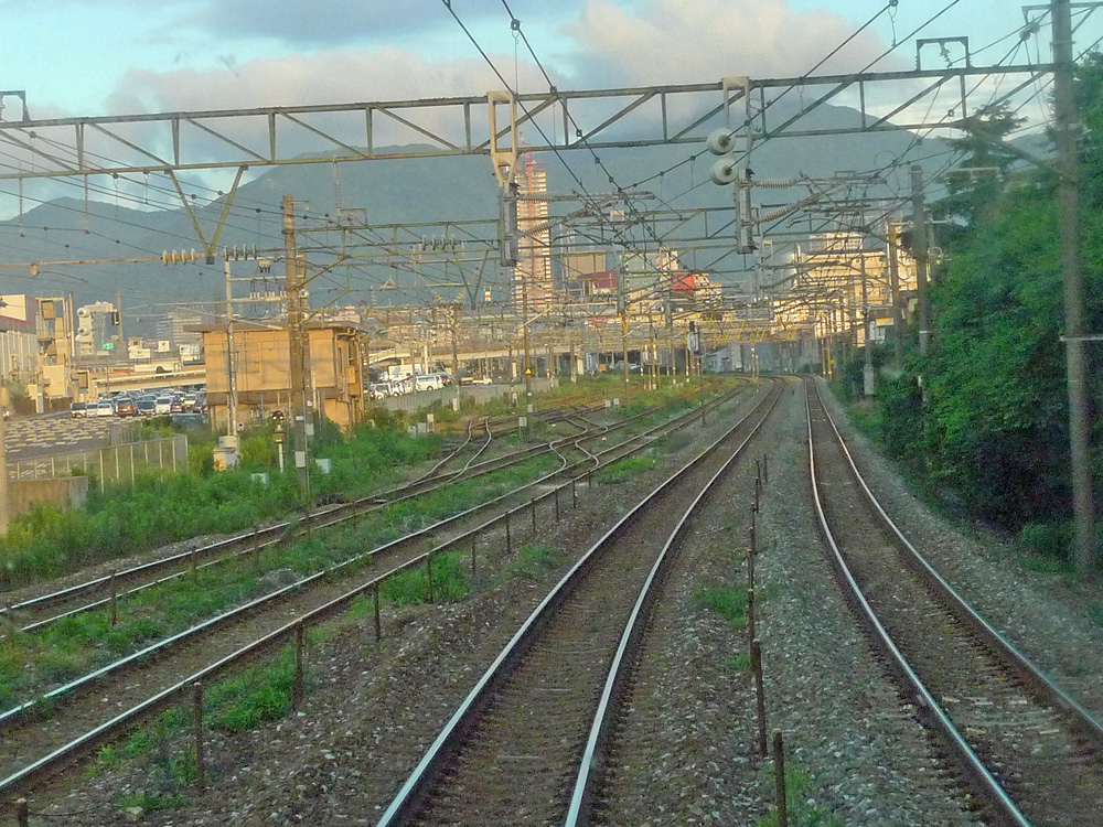 Hama-Kokura Station.